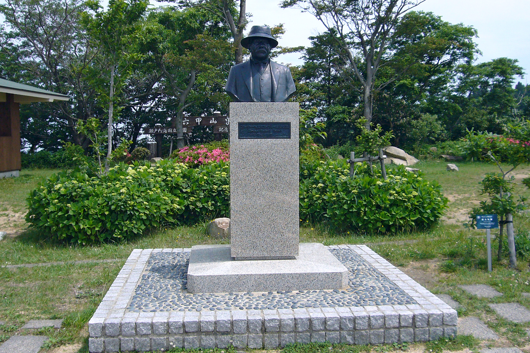 Kinenhidai in Mt.Rokko, Kobe, Hyogo prefecture, Japan